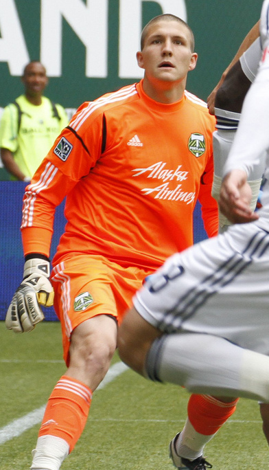 Portland Timbers reserves vs Vancouver Whitecaps reserve, May 2012